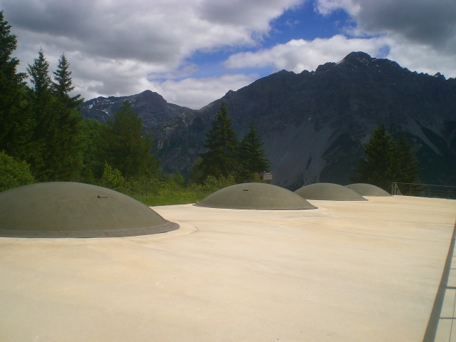 An italian WW1 fort, in Valtellina (Lombardy).